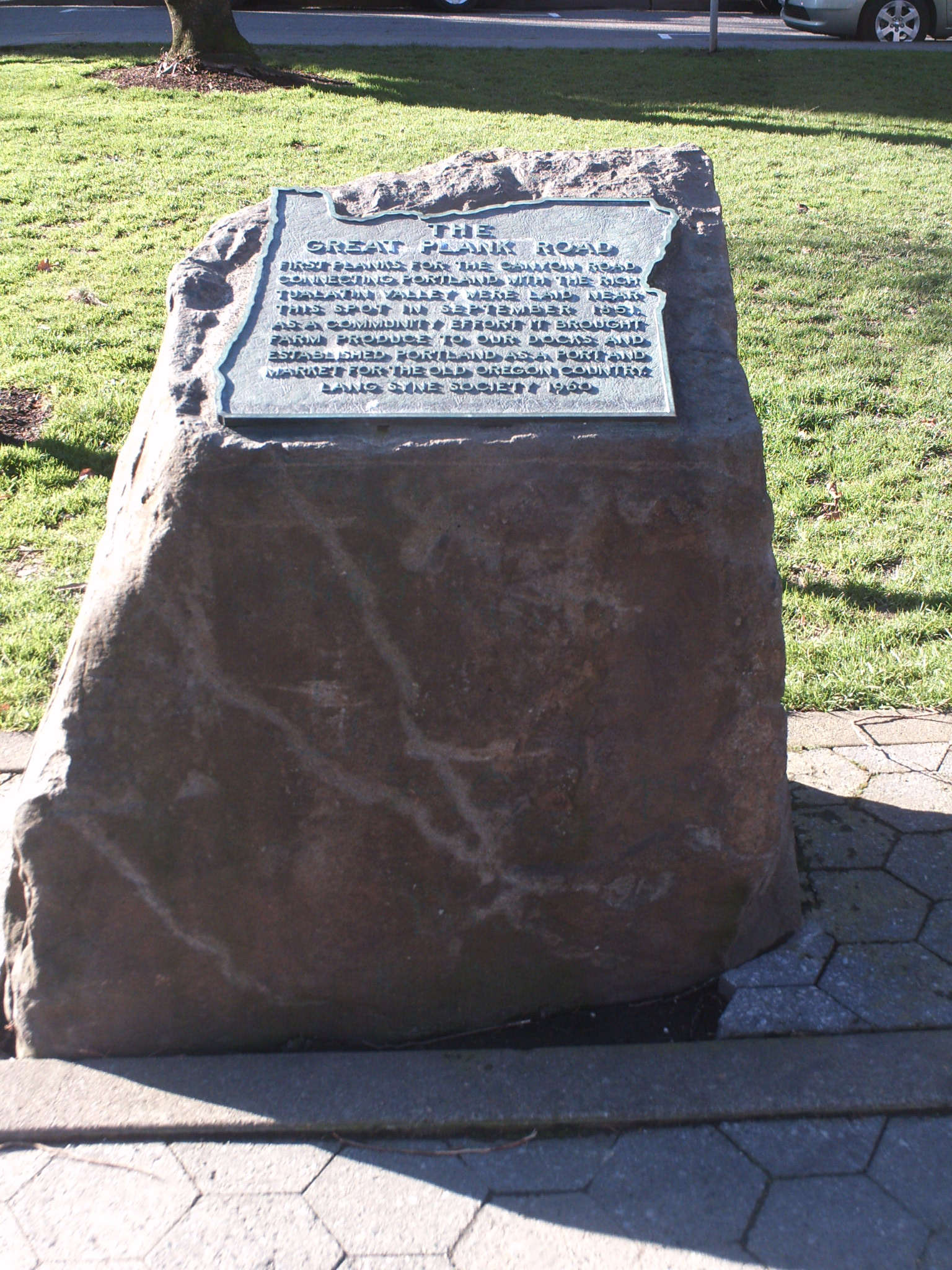 Plaque noting the "Great Plank Road" which connected Portland with the Tualatin Valley. Located in the South Park Blocks on the north side of Jefferson St, which leads to Canyon Road. It says The Great Plank Road First planks for the canyon road connecting Portland with the rich Tualatin Valley were laid near this spot in September 1851. As a community effort it brought farm produce to our docks and established Portland as a port and market for the old Oregon Country. Lang Syne Society 1960